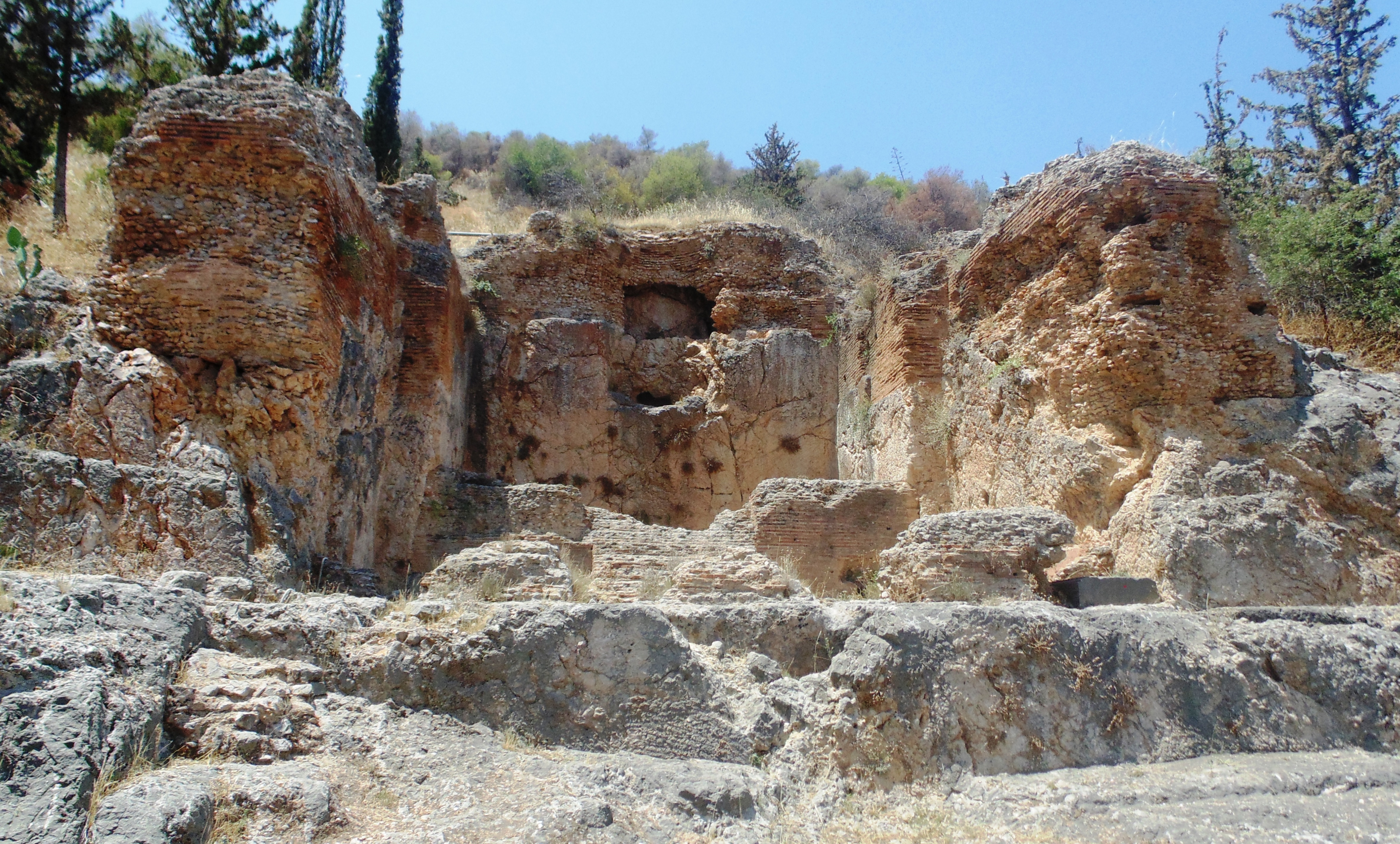 Kriterion